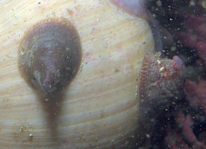 Dorsal/apical view of Crepidula adunca (left) and lateral view of other Crepidula adunca (right) on a (broken) shell of Polinices lewisii.